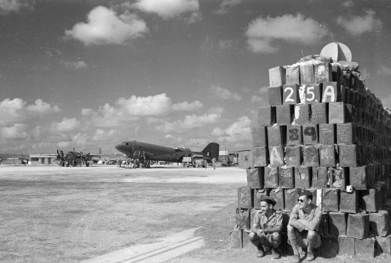 Royal Air Force Operations in Malta, Gibraltar and the Mediterranean, 1939-1945. A Douglas Dakota and a North American Mitchell parked on the hard standing at Luqa while staging through Malta to the Far East. Two airmen in the foreground are squatting against the end of one of the aircraft revetments built of sand-filled fuel tins during the siege.